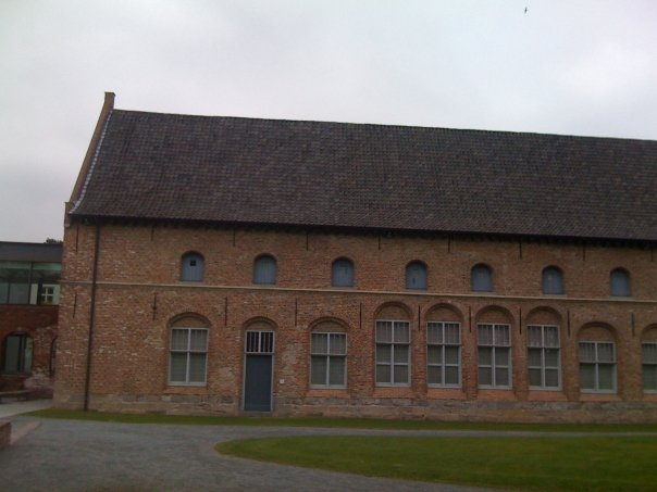 dormitorium of Groeningeabdij dormitorium van de Groeningeabdij in Kortrijk